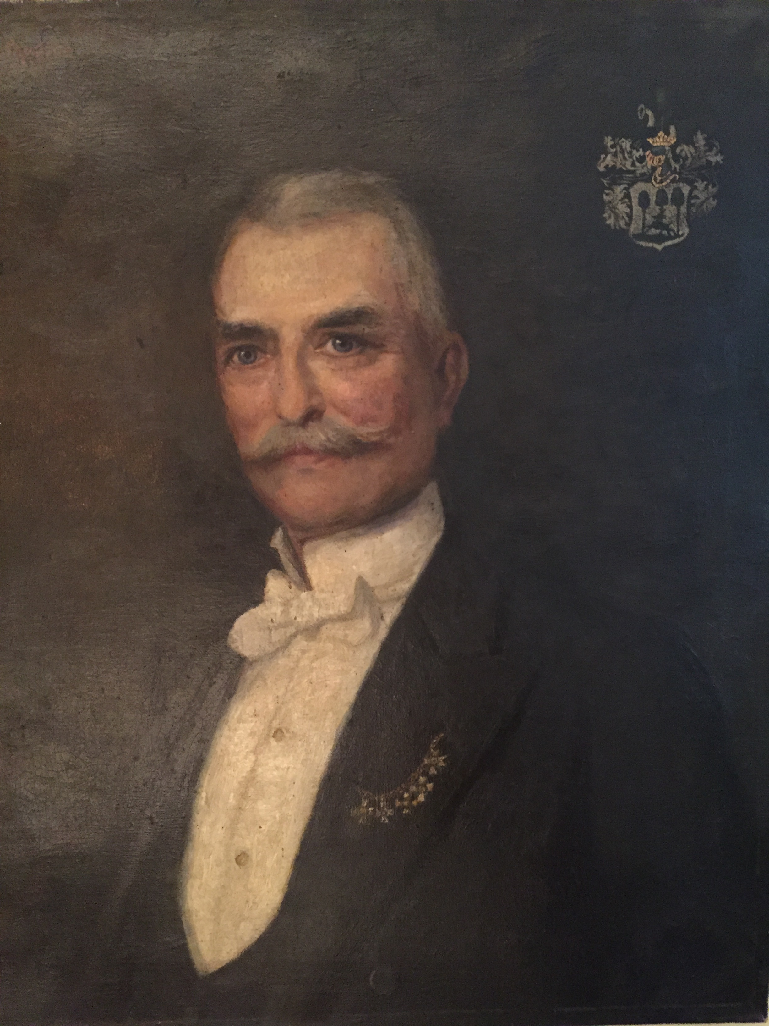 Porträt of Ferdinand Arnold von dem Busch - Secretary of Justice - Kingdom of Hannover